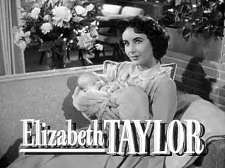 Cropped screenshot of Elizabeth Taylor from the trailer for the film Father's Little Dividend